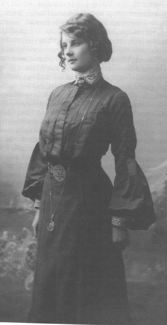 Greta Sjöberg, wife 1903-1916 of author Verner von Heidenstam